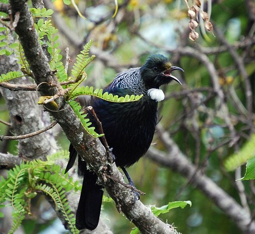 A Tui on Tiritiri Matangi Island, New Zealand.